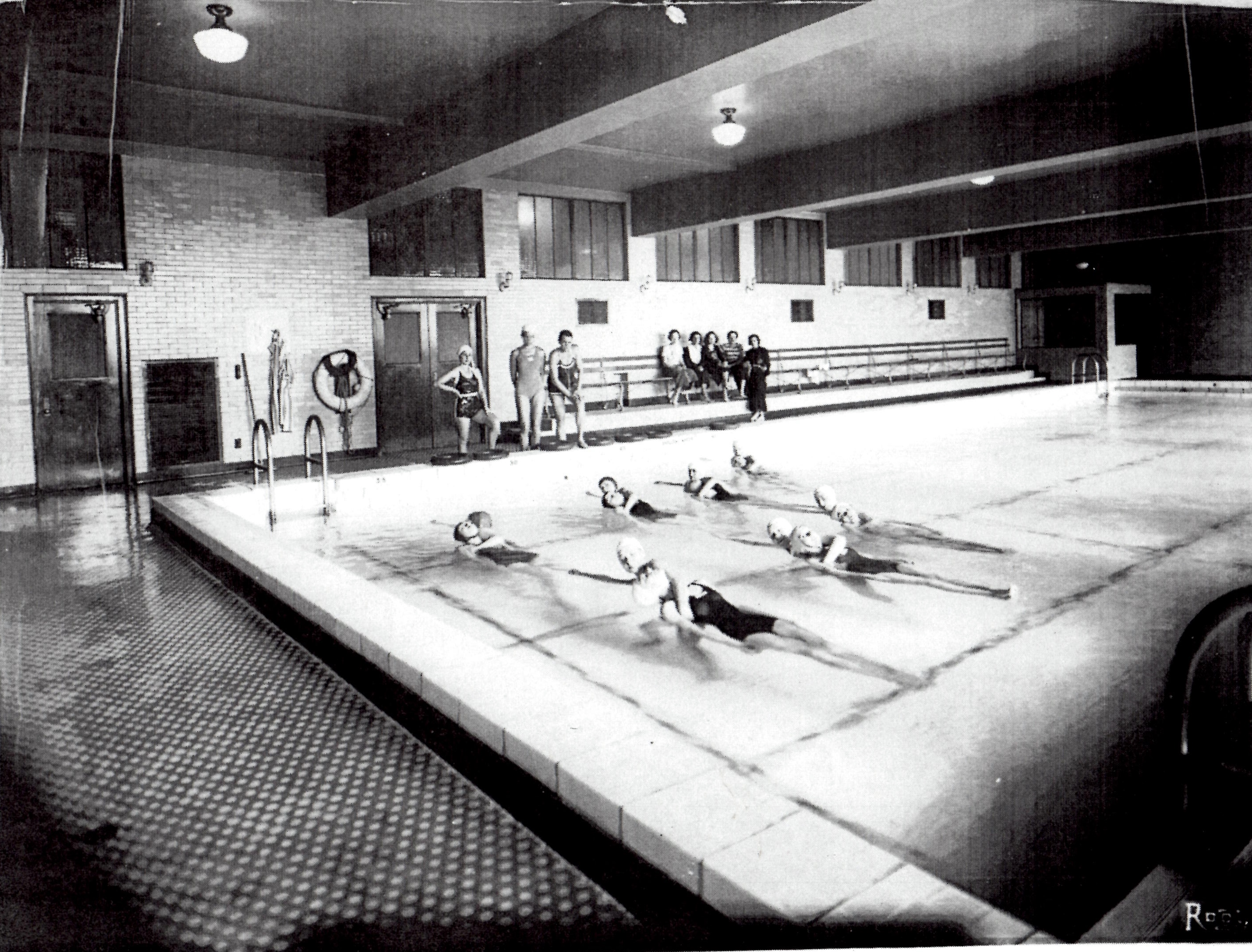 Kay Curtis swim class in Chicago, 1930's